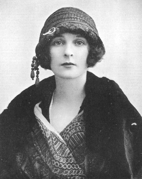 Portrait of Freda Dudley Ward